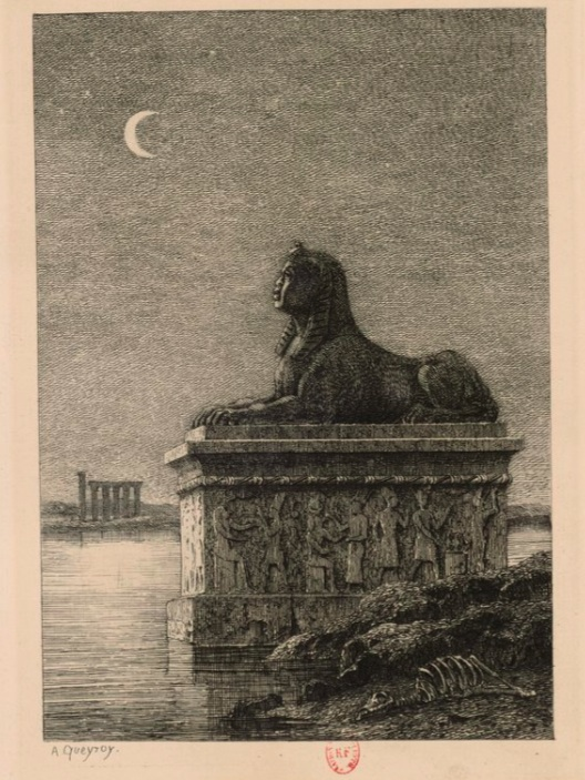 "Le sphinx", acquaforta by Armand Queyroy for Henri Cazalis, in Sonnets et eaux-fortes, Paris, 1869.